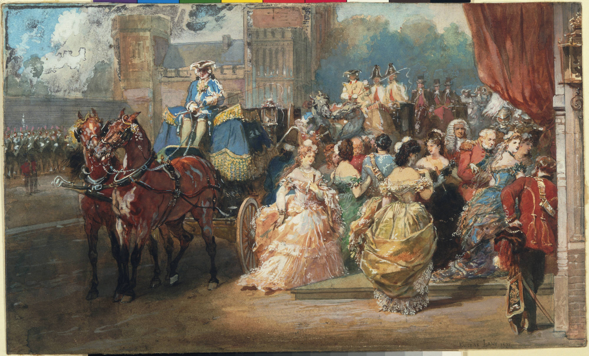 Eugène Louis Lami, French, 1800–1890 Entry to a Drawing Room at Marlborough House, 1871 Watercolor and gouache over graphite on white wove paper 18.7 x 31.2 cm (7 3/8 x 12 5/16 in.) Museum purchase, John Maclean Magie, Class of 1892, and Gertrude Magie Fund x1951-81 Nineteenth-Century Pastels, Drawings, Watercolors (Complement to Cezanne Exhibition): Princeton University Art Museum (1 Feb 1992 – 5 Apr 1992) European Drawings from Neo-Classicism to Impressionism: Princeton University Art Museum (4 Dec 1990 – 6 Jan 1991)